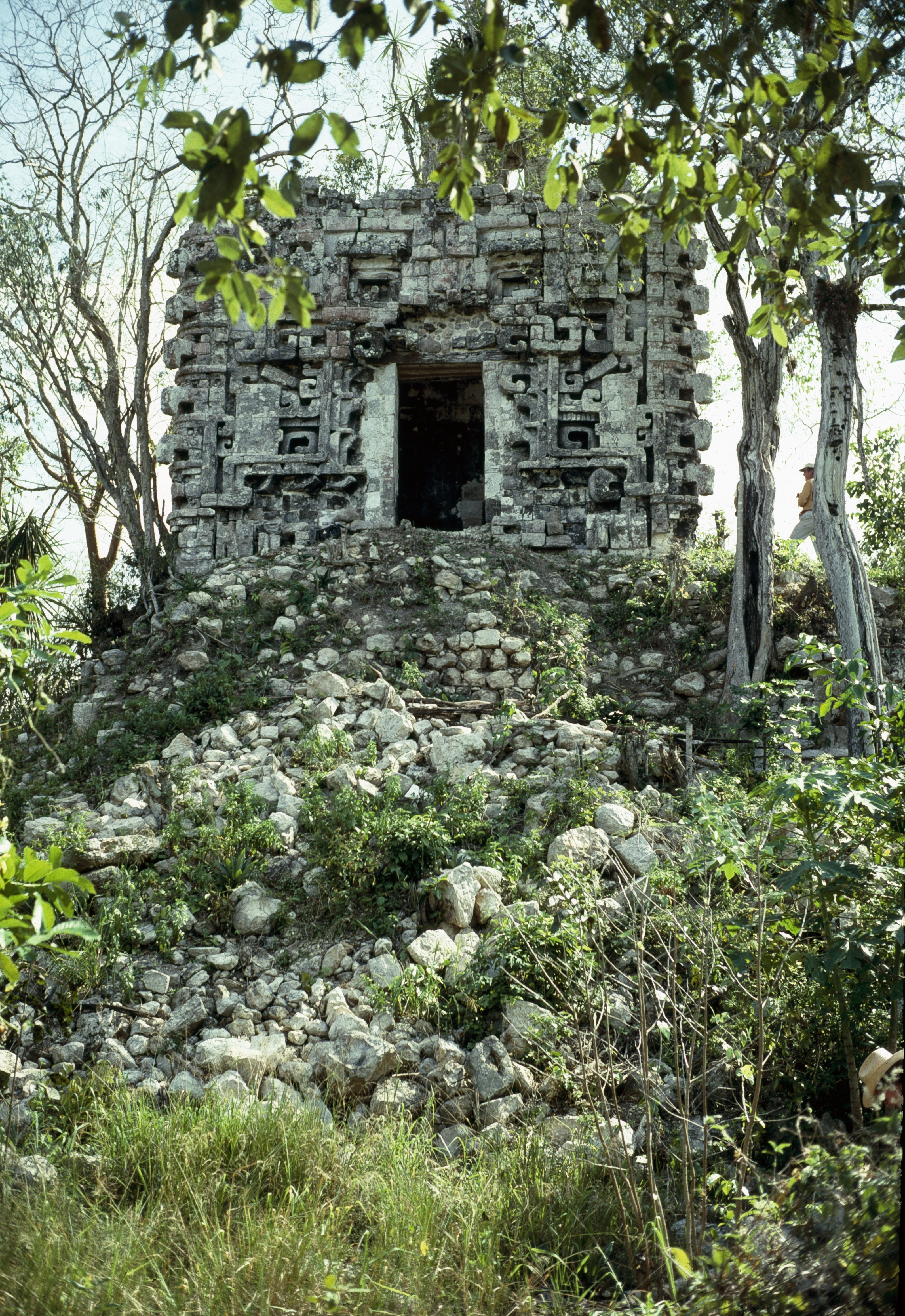 Tabasqueño,Campeche, Mexico: Central temple before damage by Hurrican Gilbert.